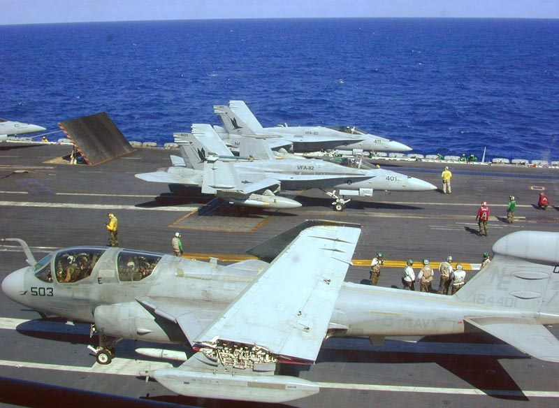 Flight operations (launch phase) on a modern aircraft carrier: the USS Abraham Lincoln (CVN-72). EA-6B Prowler in the foreground, F/A-18 in background. Photograph made from the secondary bridge.